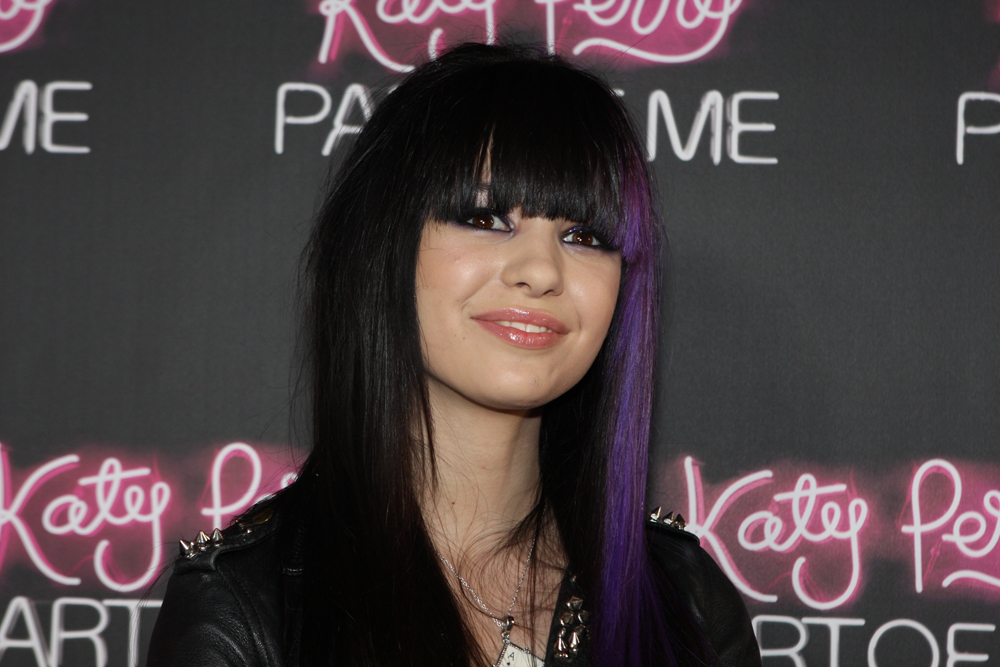 Christina Parie at the Australian premiere of Katy Perry: Part of Me in Sydney, Australia.